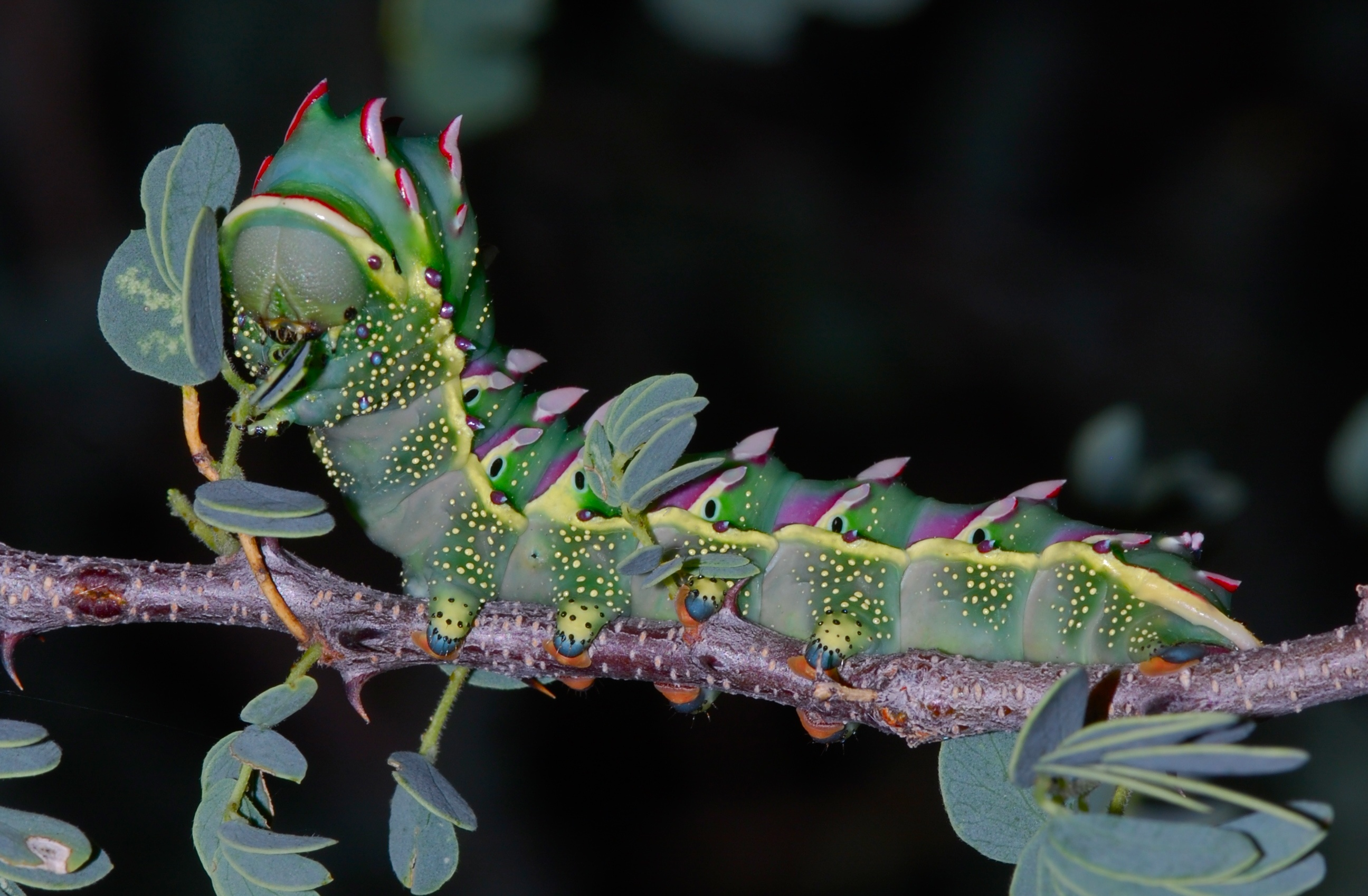 Nossob Camp, Kgalagadi Transfrontier Park, SOUTH AFRICA